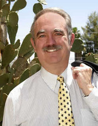 Libertarian party founder David Nolan in a 2010 campaign photo during his Senate run